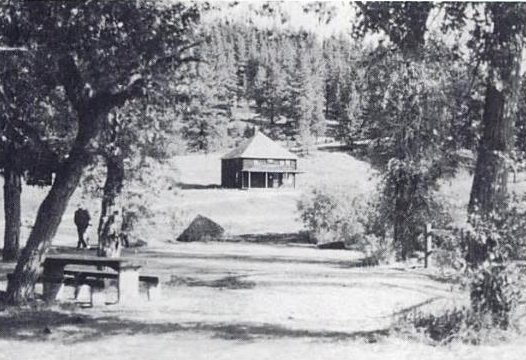 The 1908 Judith River Ranger Station in Lewis and Clark National Forest, Utica, Montana. This building is now a rental cabin.